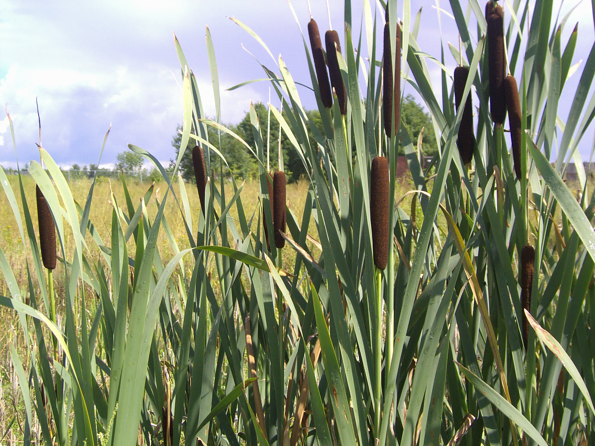 Typha latifolia: Foliage and seed heads.